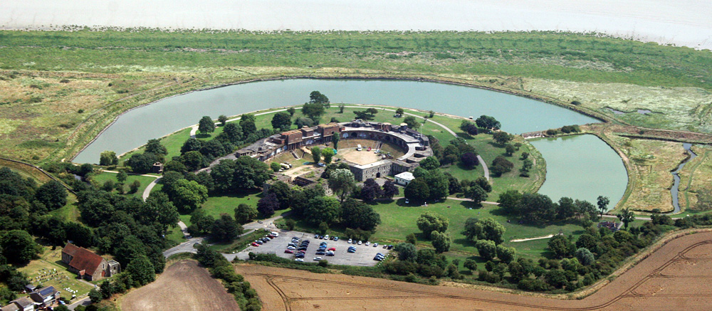 Coalhouse Fort aerial view from north